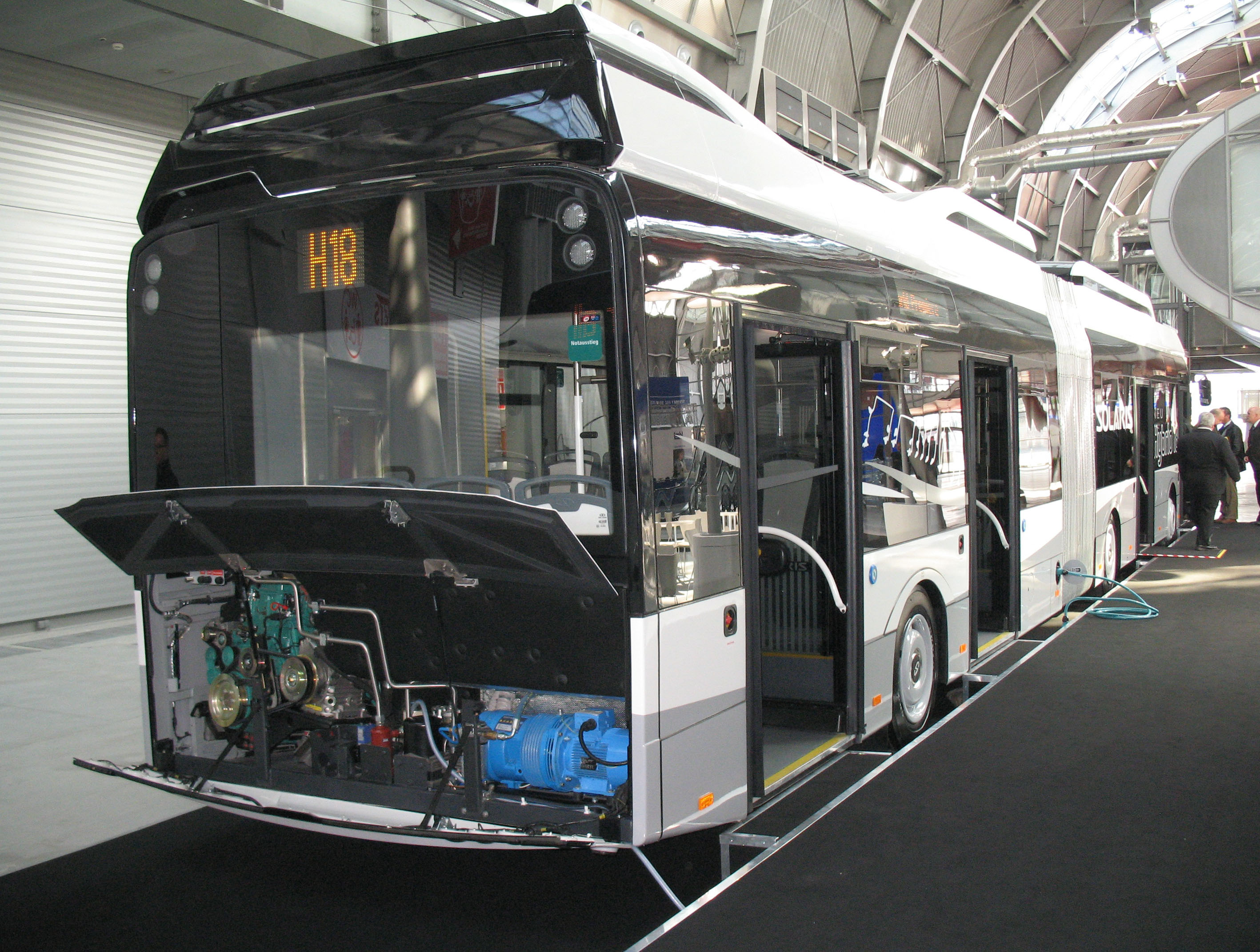 Solaris Urbino 18 Hybrid Vossloh Kiepe city bus in Kielce, Poland. Built 2010. Transexpo 2010. Cummins ISB6.7 285H engine.